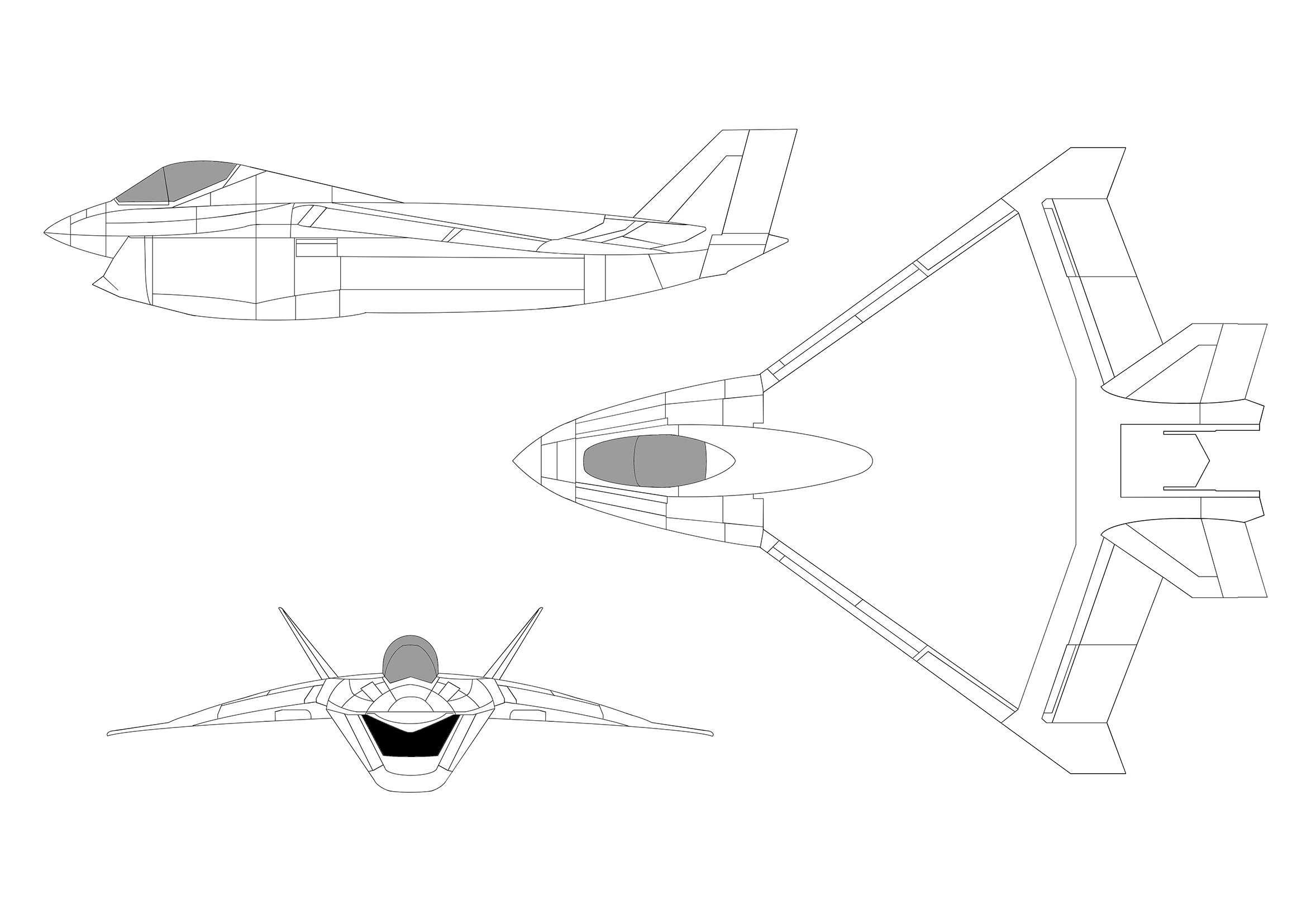 Perspective tables of Boeing X-32